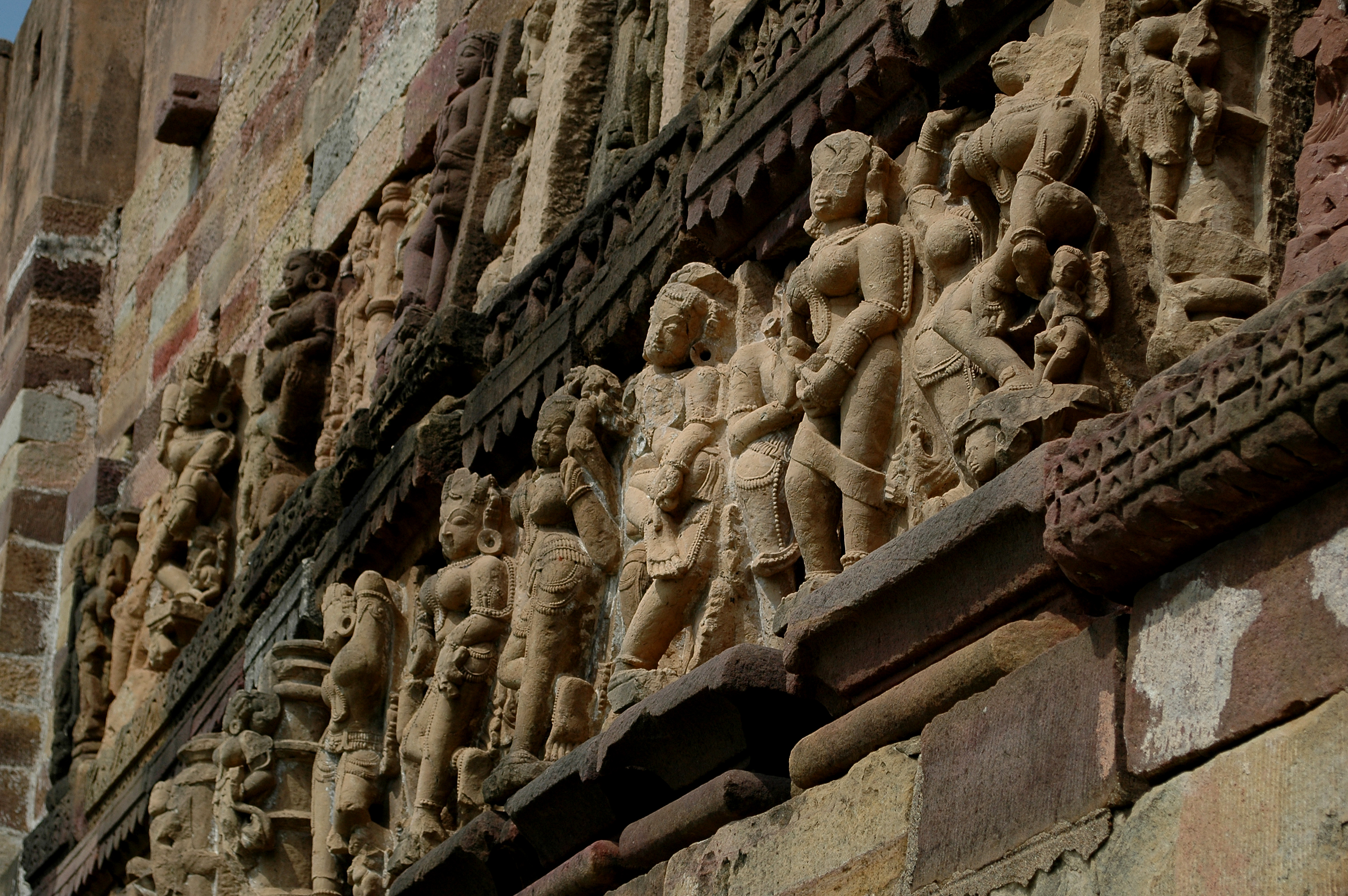 Whole site around Ratanpur /Ratanpur Fort